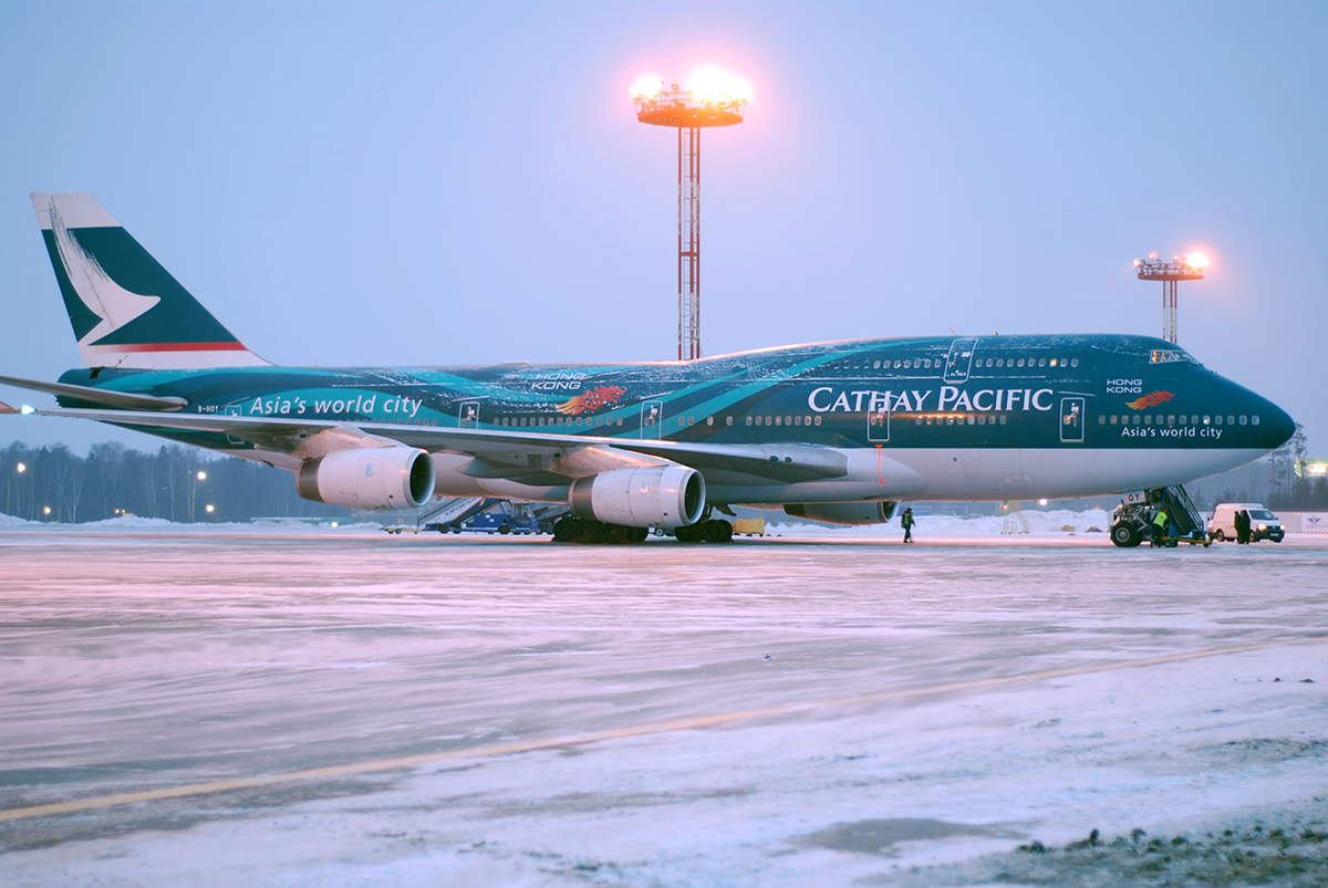 Dawning. "Cathay Pasific"Sheremetyevo